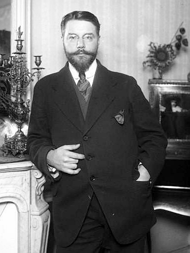 French politician and trade-unionist Paul Aubriot (1873-1959).